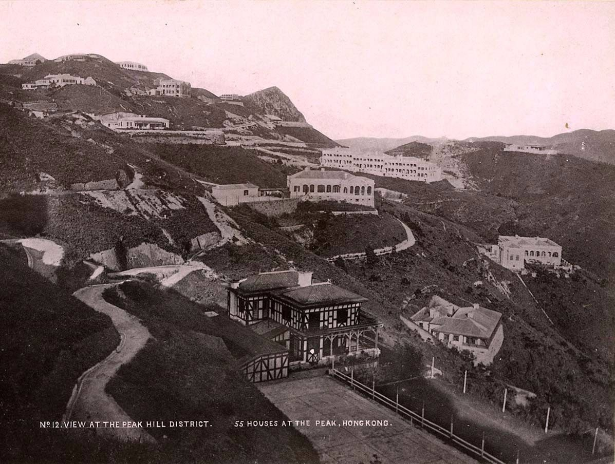 View at Peak Hill